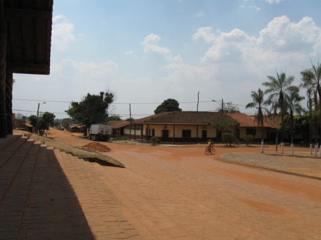 A typical sand/dirt street in Chiquitania towns.